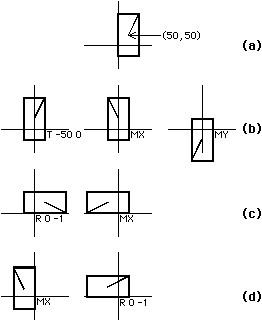 This is figure 4 of Appendix B of my book "Computer Aids for VLSI Design" (by Steven M. Rubin). The book is currently on the web at